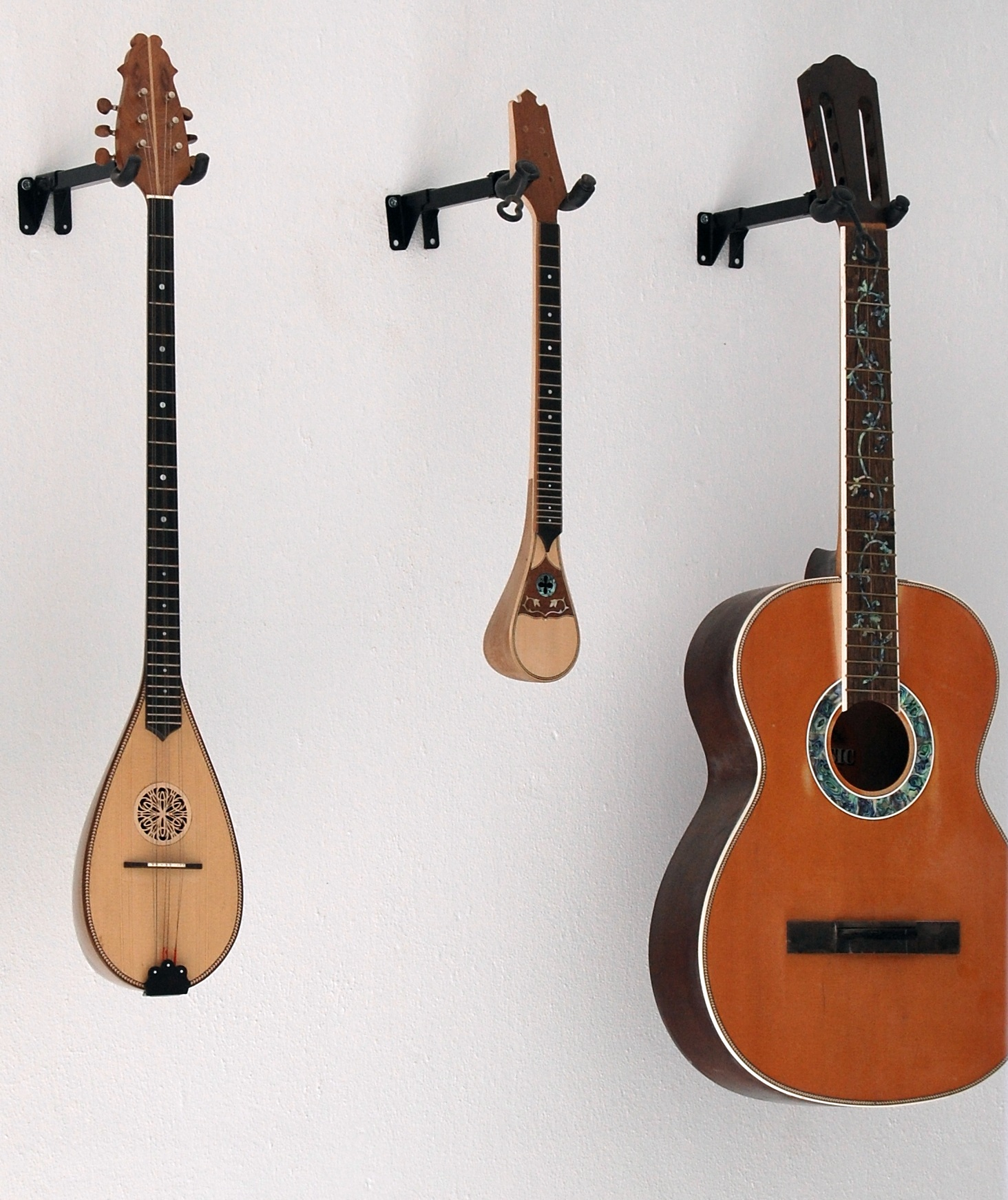 A Tzouras (left) and a Balamas (right), a kind of small bouzoukis. Half a guitar included on the right, for size.